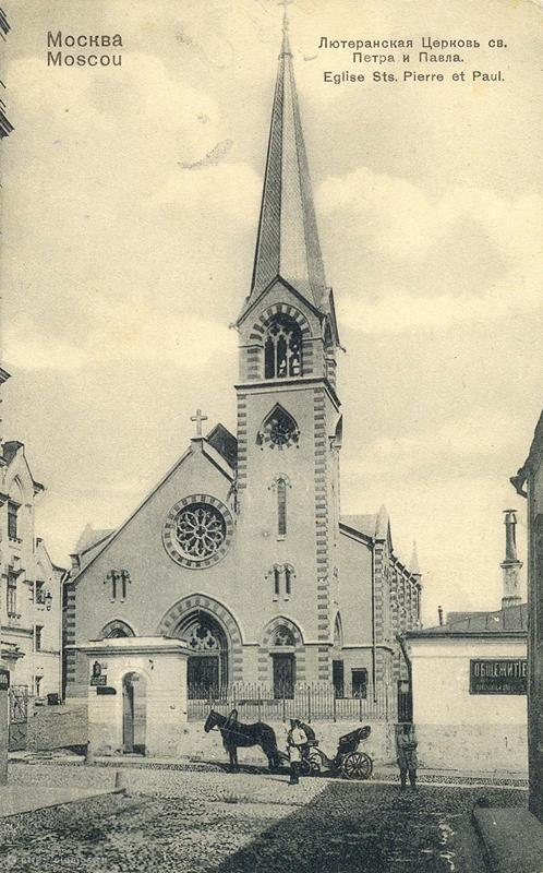 Moscow Lutheran Cathedral Postcard